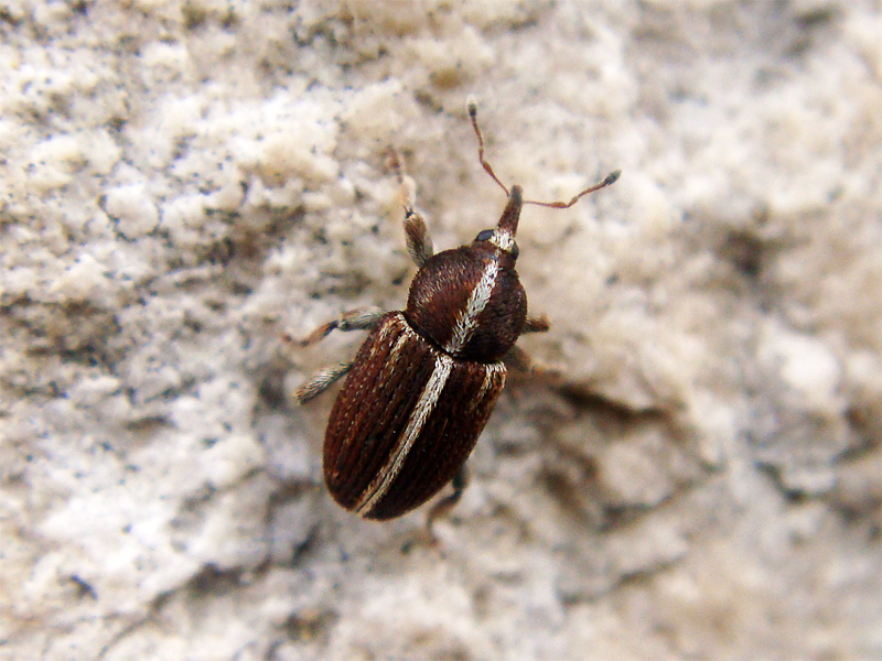 Tychius sp., Europe, Portugal, Leiria, Ansião